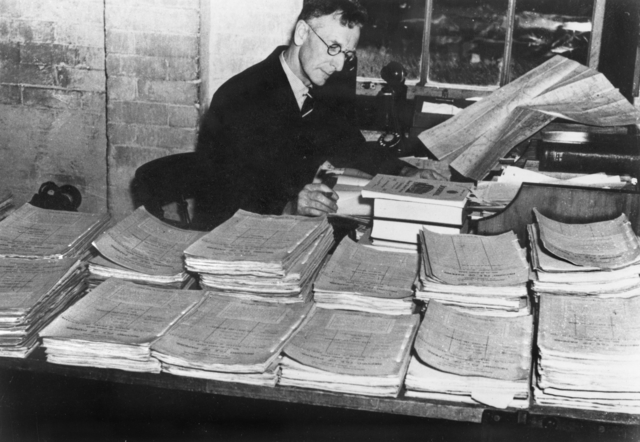 Australian War Memorial image A05389. C.E.W. Bean working on official files in his Victoria Barracks office during the writing of the Official History of Australia in the War of 1914–1918.